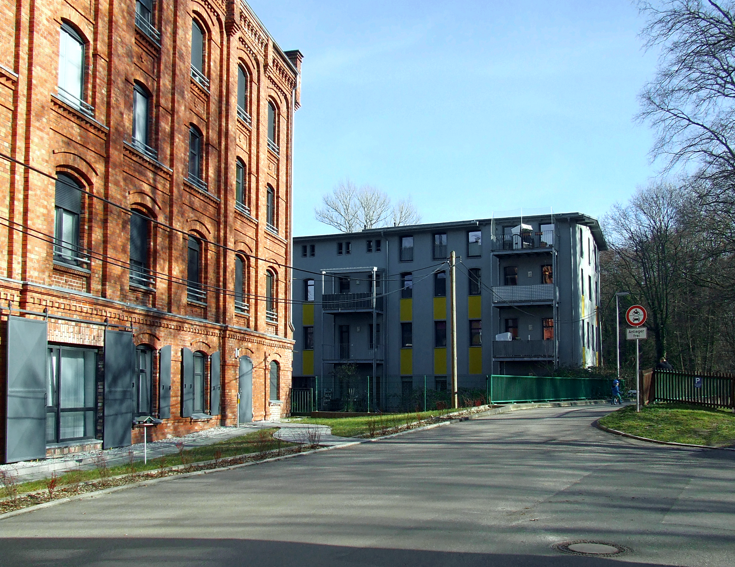 Markgrafenmühle 2, former textile factory. This view is from the west.